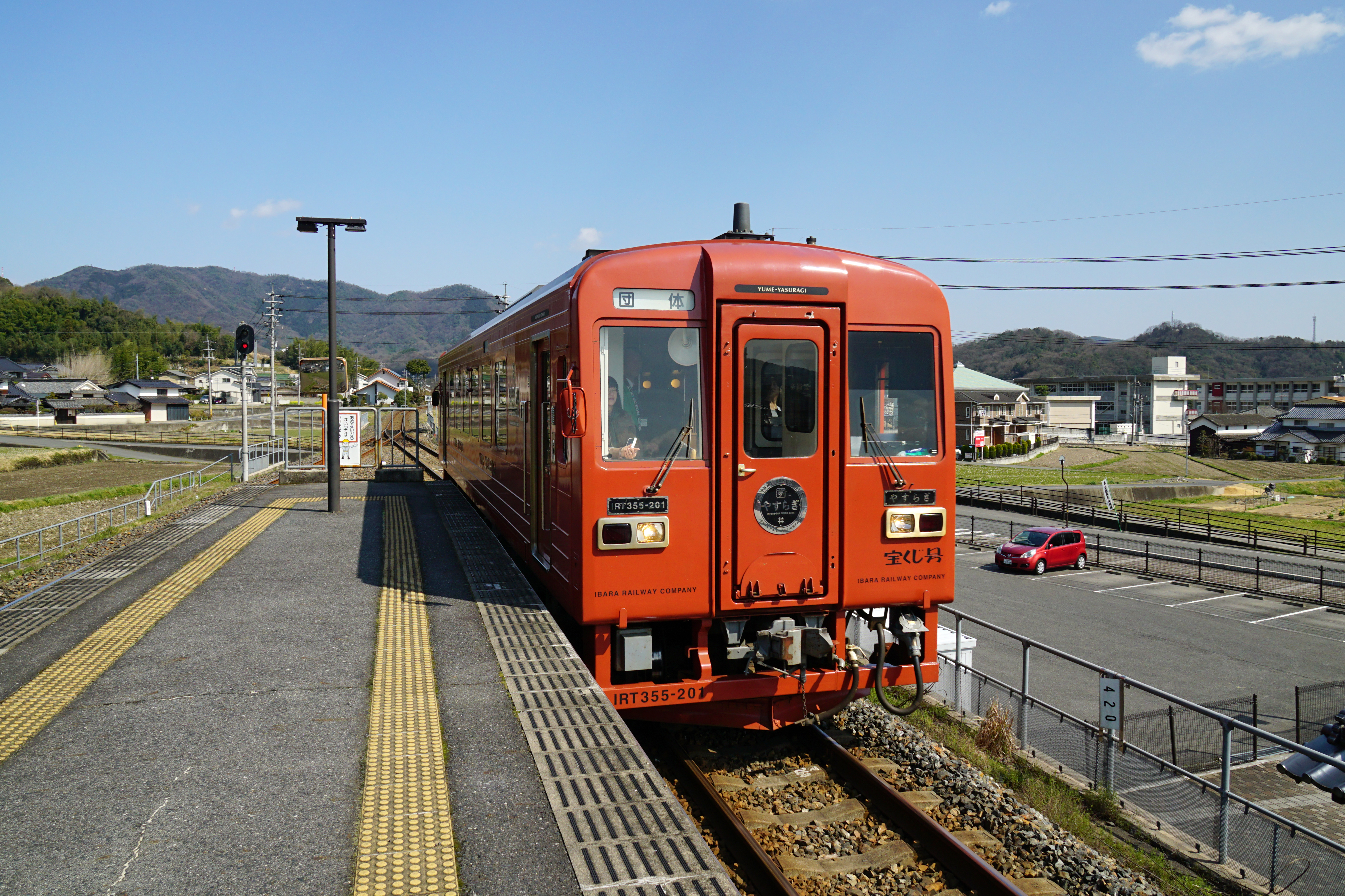 Yakage Station in Yakage, Okayama prefecture, Japan